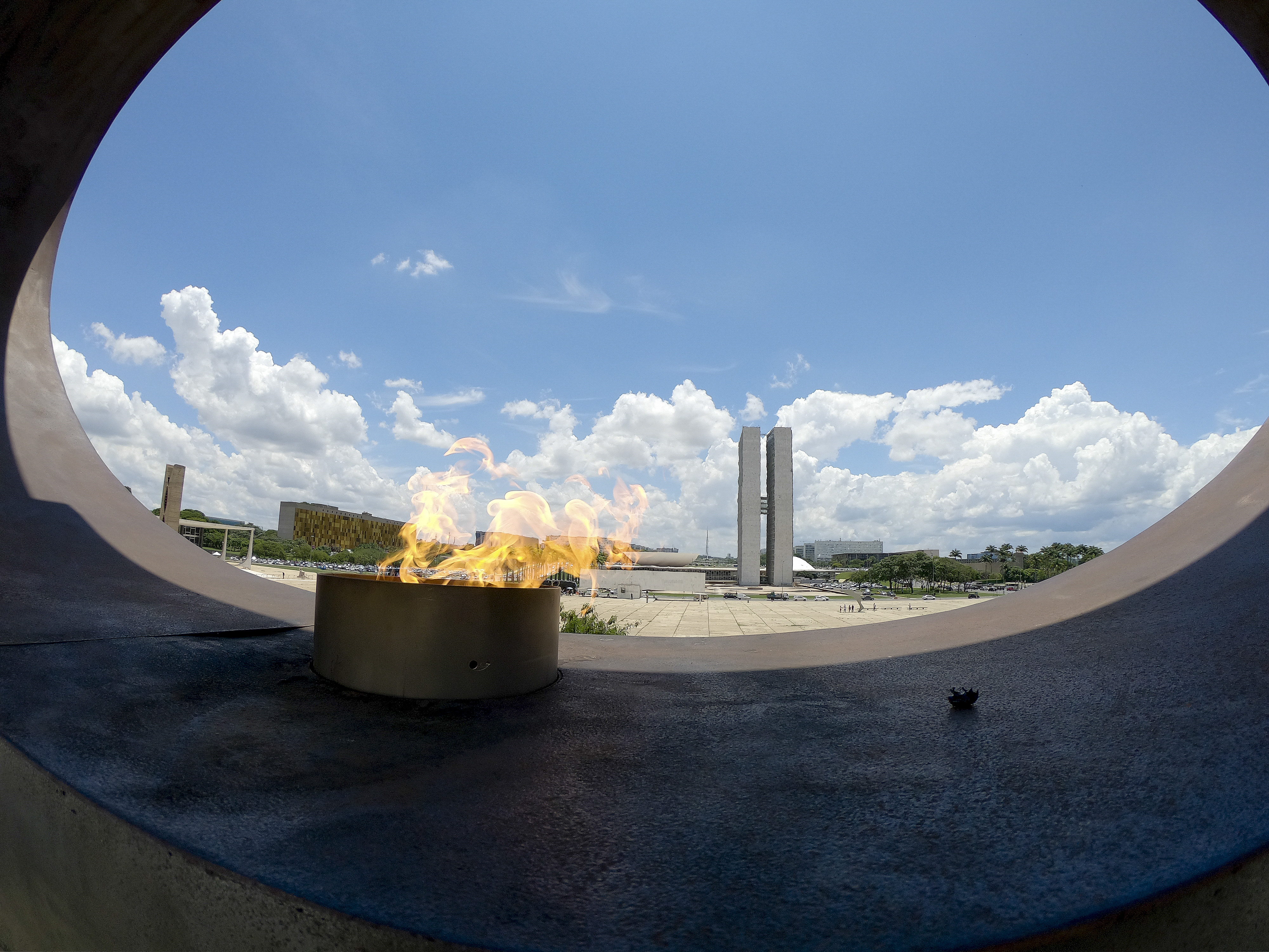 O Panteão da Pátria e da Liberdade Tancredo Neves é um memorial em formato de pomba que homenageia heróis nacionais, como o ex-Primeiro-Ministro Tancredo Neves. O local foi projetado pelo famoso arquiteto brasileiro Oscar Niemeyer e fica na Praça dos Três Poderes, junto de outros marcos importantes. A chama do Panteão da Pátria, no centro de Brasília, voltou a ser acesa na última segunda-feira (22) – após um reforma que durou sete meses. A estrutura estava apagada desde agosto de 2016 devido a um vazamento de gás. Foto: Roque de Sá/Agência Senado